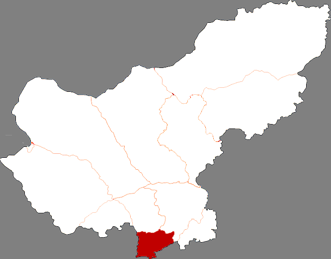 Locator map of Taibus Banner in Xilingol League, Inner Mongolia, China